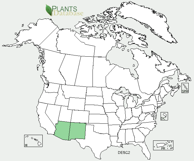 PLANTS Profile